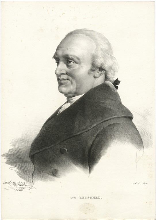 William Herschel (1738 - 1822). German-British astronomer.